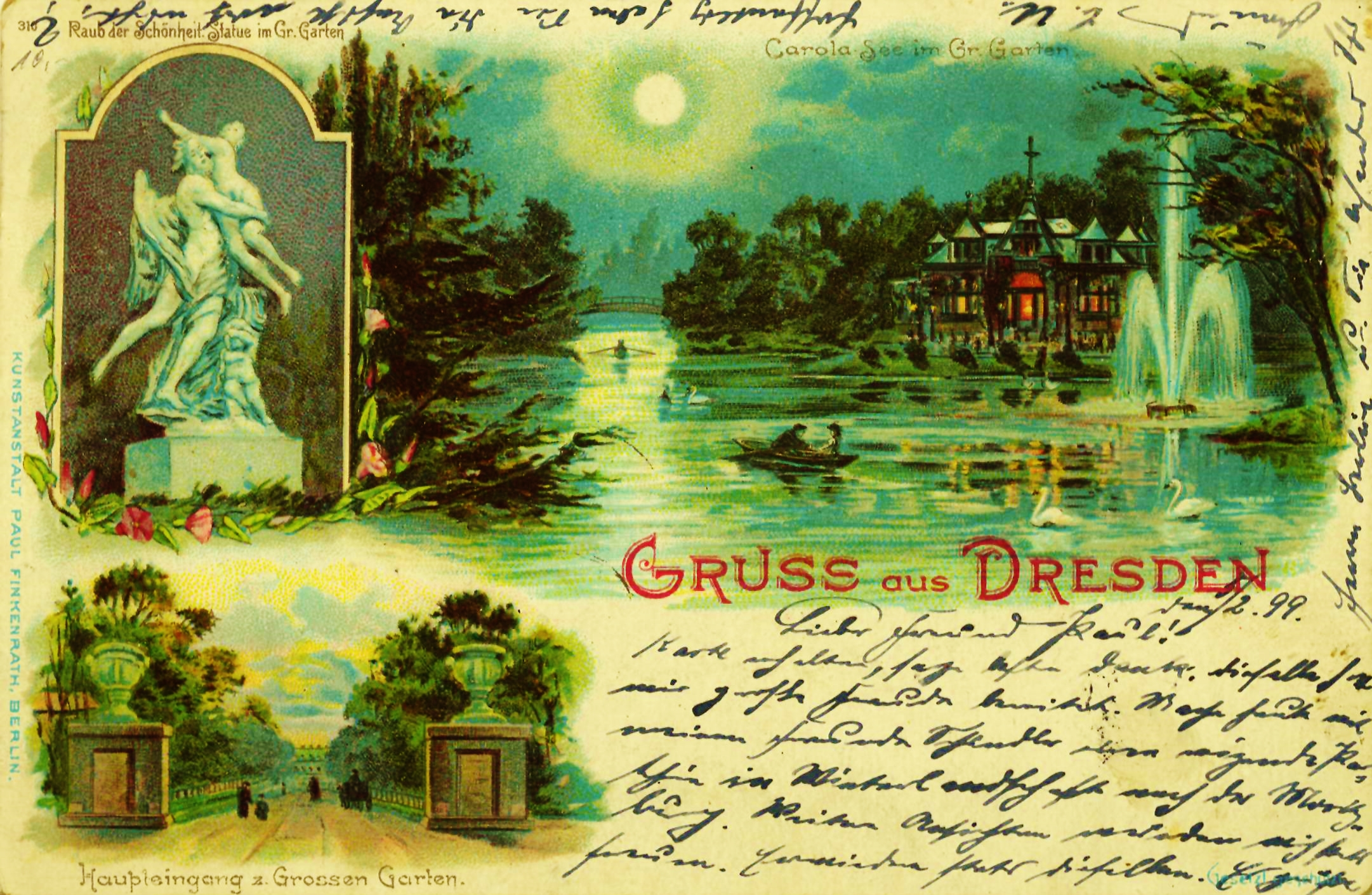 Swan greetings from the Carolasee (lake) Dresden.